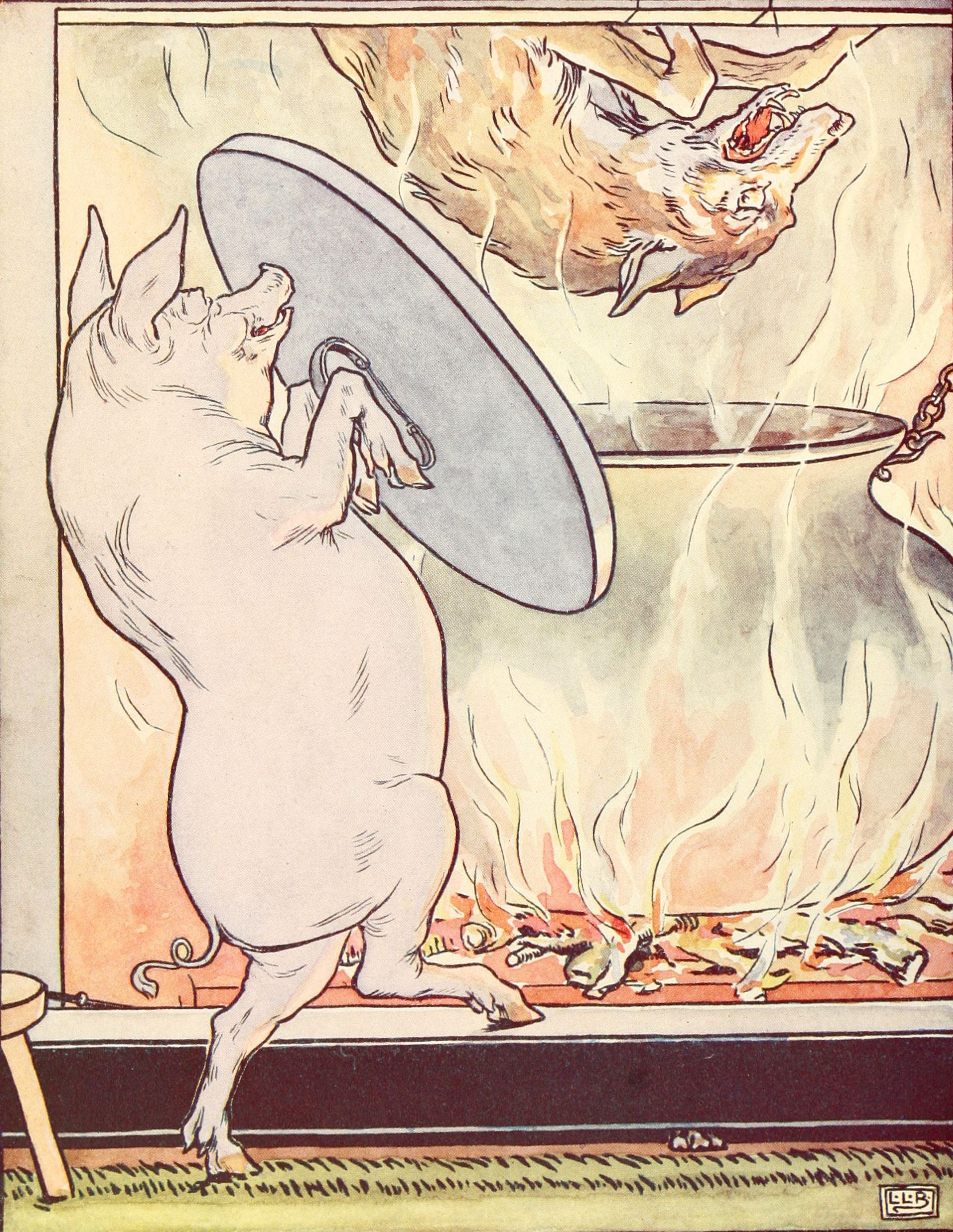 Three Little Pigs - the wolf lands in the cooking pot - Project Gutenberg eText 15661